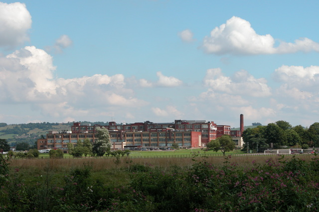 Cadbury's chocolate factory at SomerdaleSomerdale Factory, Keynsham